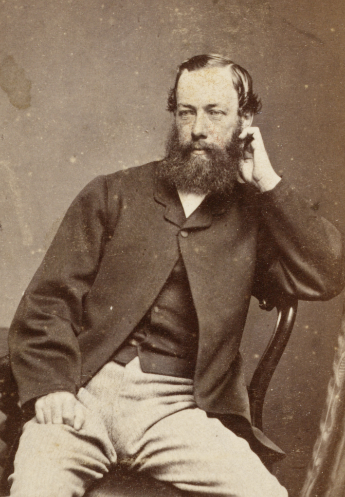 Richard Daintree, Australian geologist and photographer, c.1875, from albumen print, State Library of New South Wales PXA 362 Vol 6